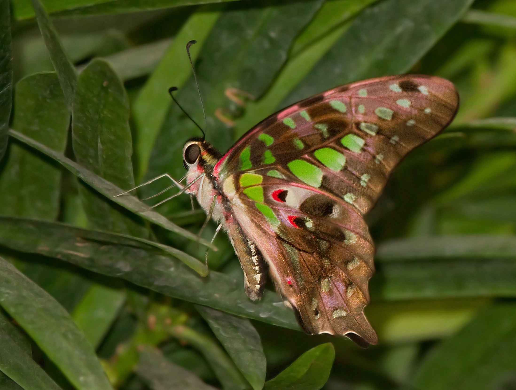 Tailed Jay - Graphium agamemnon - taken at Krohn Conservatory.